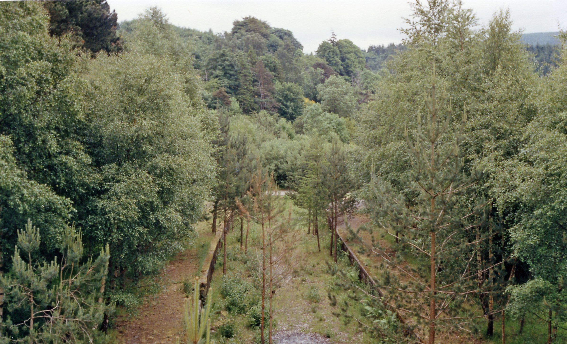 Remains of Craigellachie station, 1988. View SE, towards Keith and Aberdeen: ex-GNSR Elgin - Keith - Aberdeen main line, junction of the line from Boat of Garten. The branch was closed from 18/10/65, the main line from 6/5/68 (goods 4/11/68) with trains from Elgin to Keith subsequently confined to the ex-Highland line. See NJ2945 : Site of Craigellachie station, 1988 for an adjacent view.